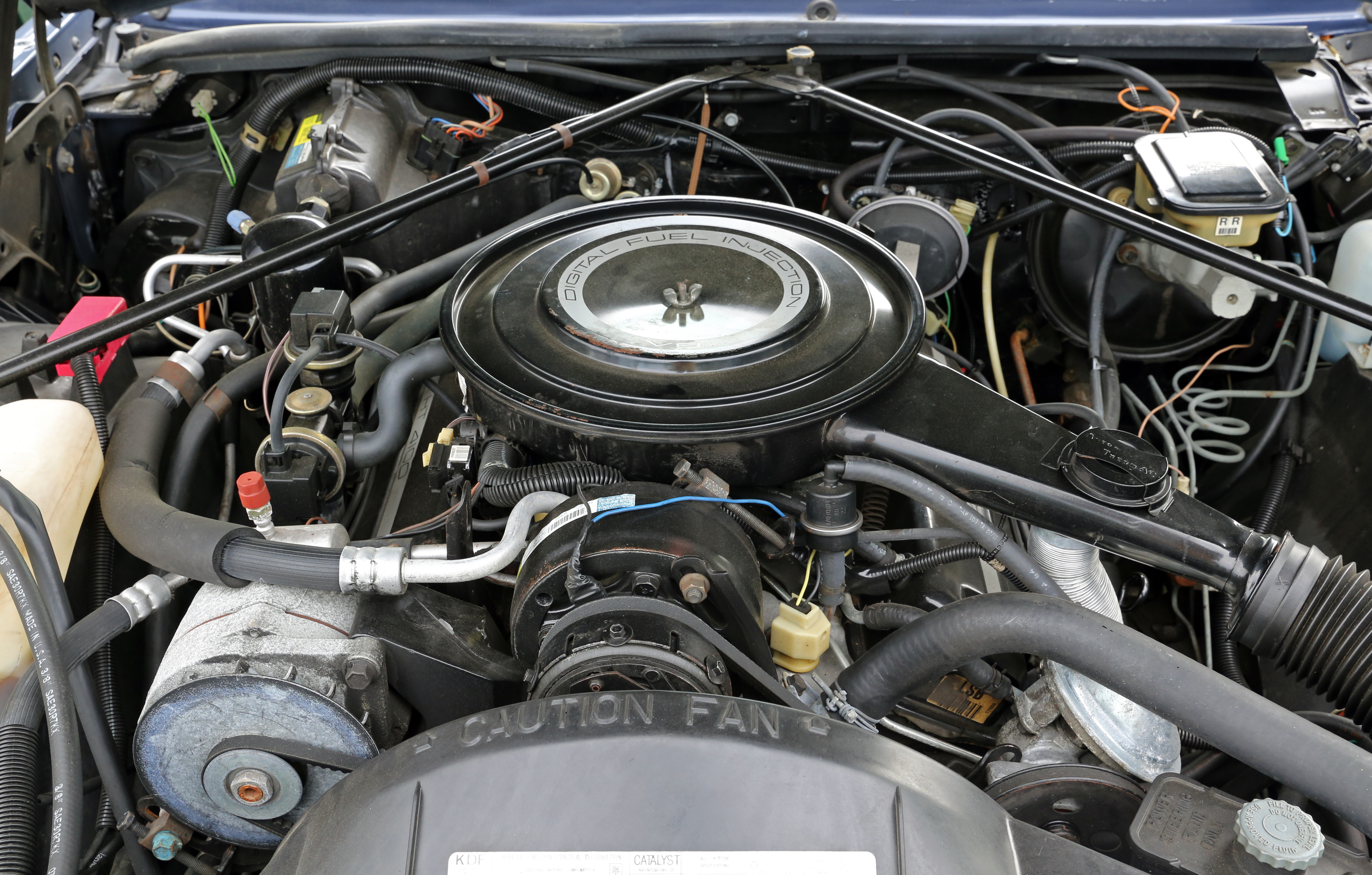 4100 V8 engine of a 1980s Cadillac Eldorado.